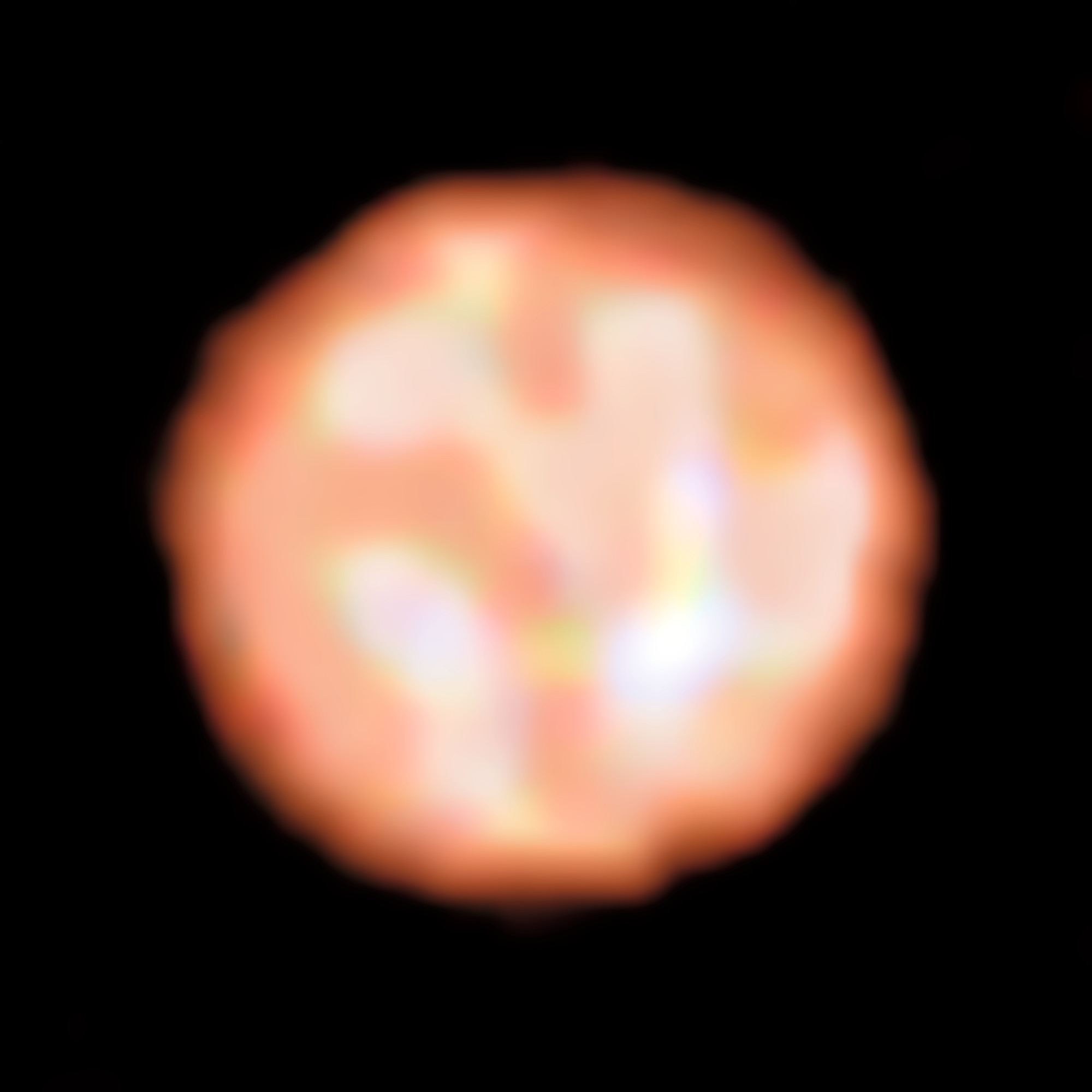 Astronomers using ESO’s Very Large Telescope have directly observed granulation patterns on the surface of a star outside the Solar System — the ageing red giant π1 Gruis. This remarkable new image from the PIONIER instrument reveals the convective cells that make up the surface of this huge star. Each cell covers more than a quarter of the star’s diameter and measures about 120 million kilometres across.